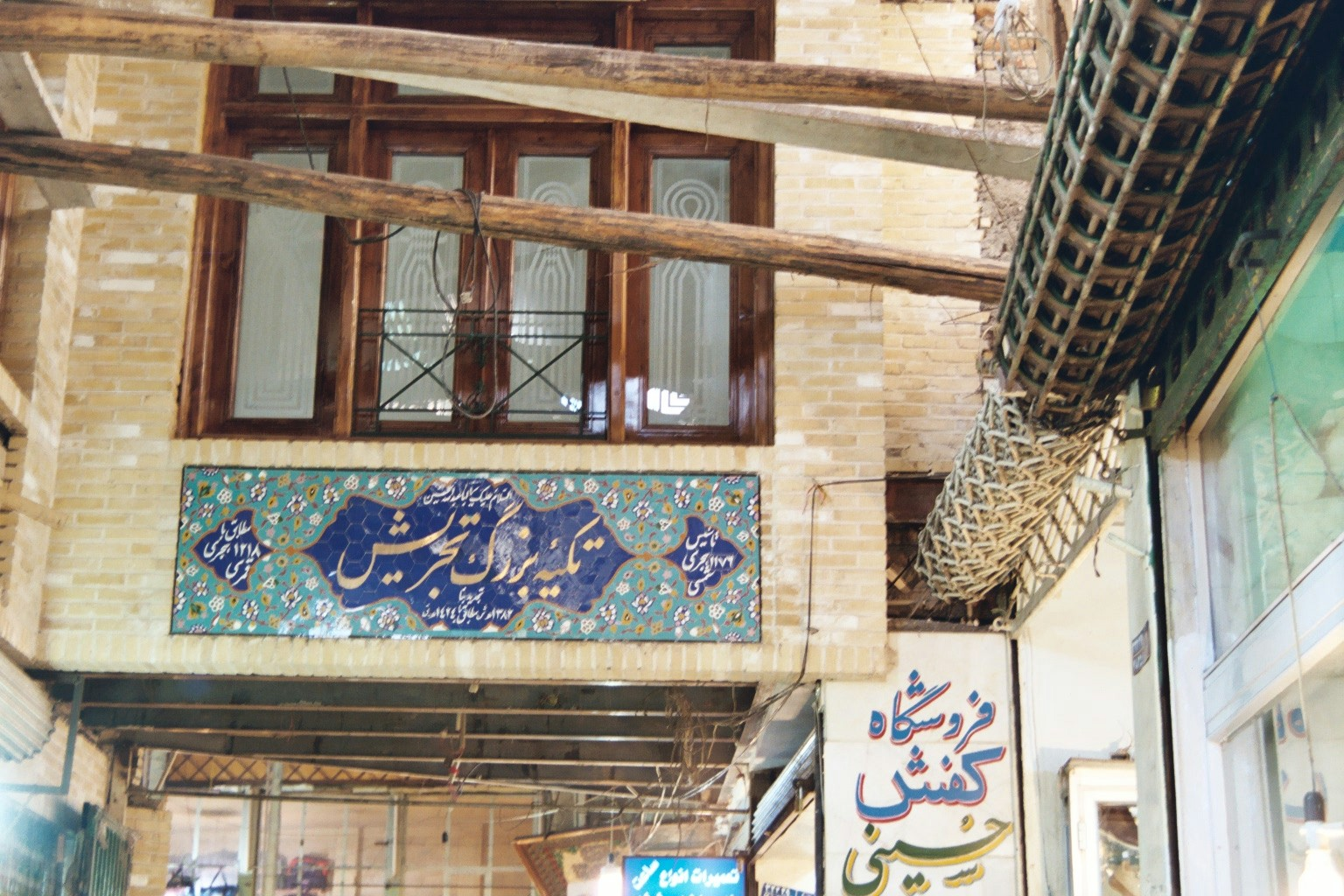 Tekkiye of Tajrish in northern Tehran, taken by Mani Parsa in 2004.